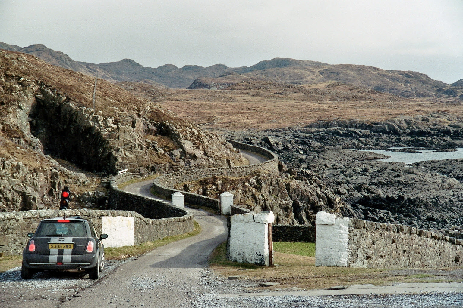 road to Ardnamurchan Lighthouse